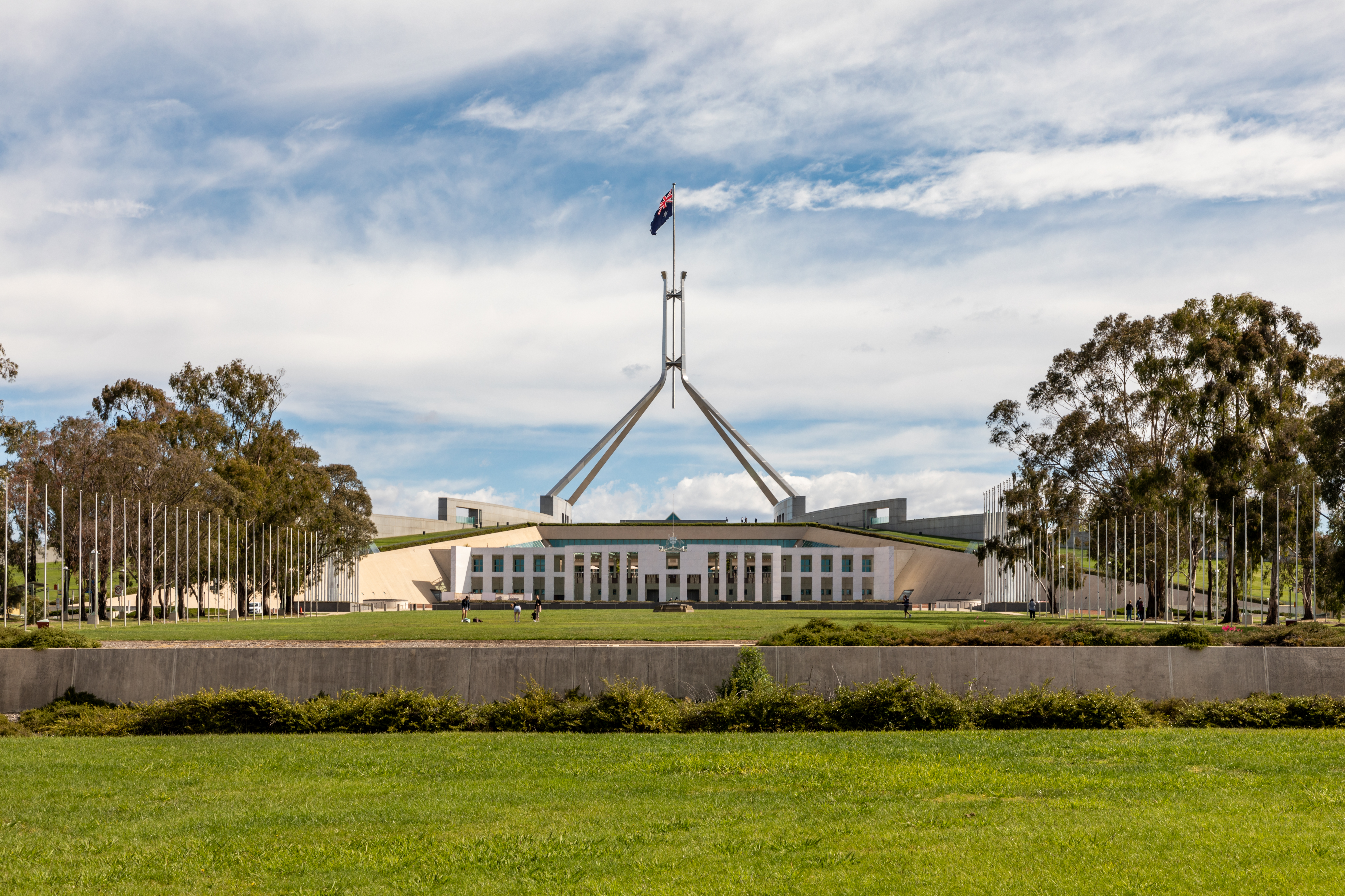 Parliament House, Canberra, Australian Capital Territory, Australia